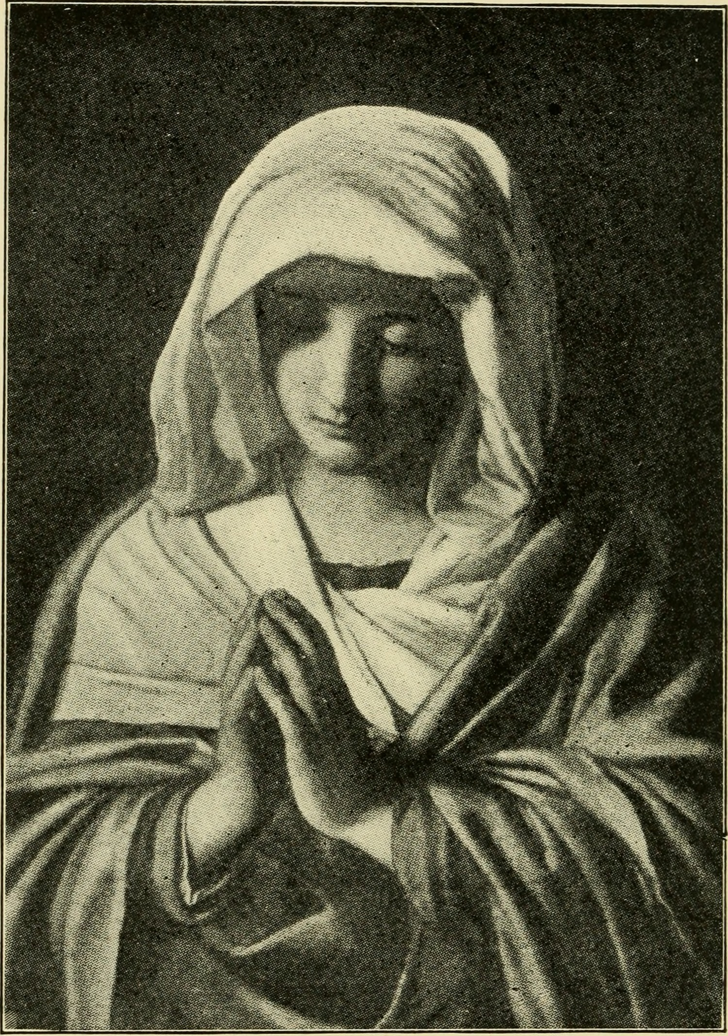 Title: Verses for various occasions Year: 1922 (1920s) Authors: Austin, Mary Christina. (from old catalog) Subjects: Publisher: Boston, The N. A. T. publishing company Text Appearing Before Image: The Spirit of 76 (Willard) VERSES FOR VARIOUS OCCASIONS THE PATRIOT A heart that is constantly burning, A fervor that never grov^rs cold,A love ever generous and yearning,Are found in the patriots mold. With courage he marches to battle, And enters the dank field of strife; For the sake of his country and honorHe willingly offers his life. In peace, he is ever devoted To the high cause of justice and truth;The fire of his youthful emotion Inspires the less militant youth. Then honor the patriots devotion, And praise him with undying breath; Inspired by his noble example, March onward to victory or death! 21 Text Appearing After Image: The Madonna at Prater (Sassof&rrato)22 VERSES FOR VARIOUS OCCASIONS THE QUEEN OE HEAVEN Fairest handmaid of the Lord,Fashioned after Heavens accord,Meeker than the snow-white dove.Brimming oer with Gods pure love! Would I were a song-bird freeCaroling in ecstasy,I should hymn a fitting layTo the spotless Queen of May. Every note that I should singWould to thee great pleasance bring,And twould touch with magic artThe nerve-strings of the Sacred Heart. When I leave this vale of tearsFraught with discontent and fears,Virgin fair, be thou my guide.Lead me to the Saviours side. 23